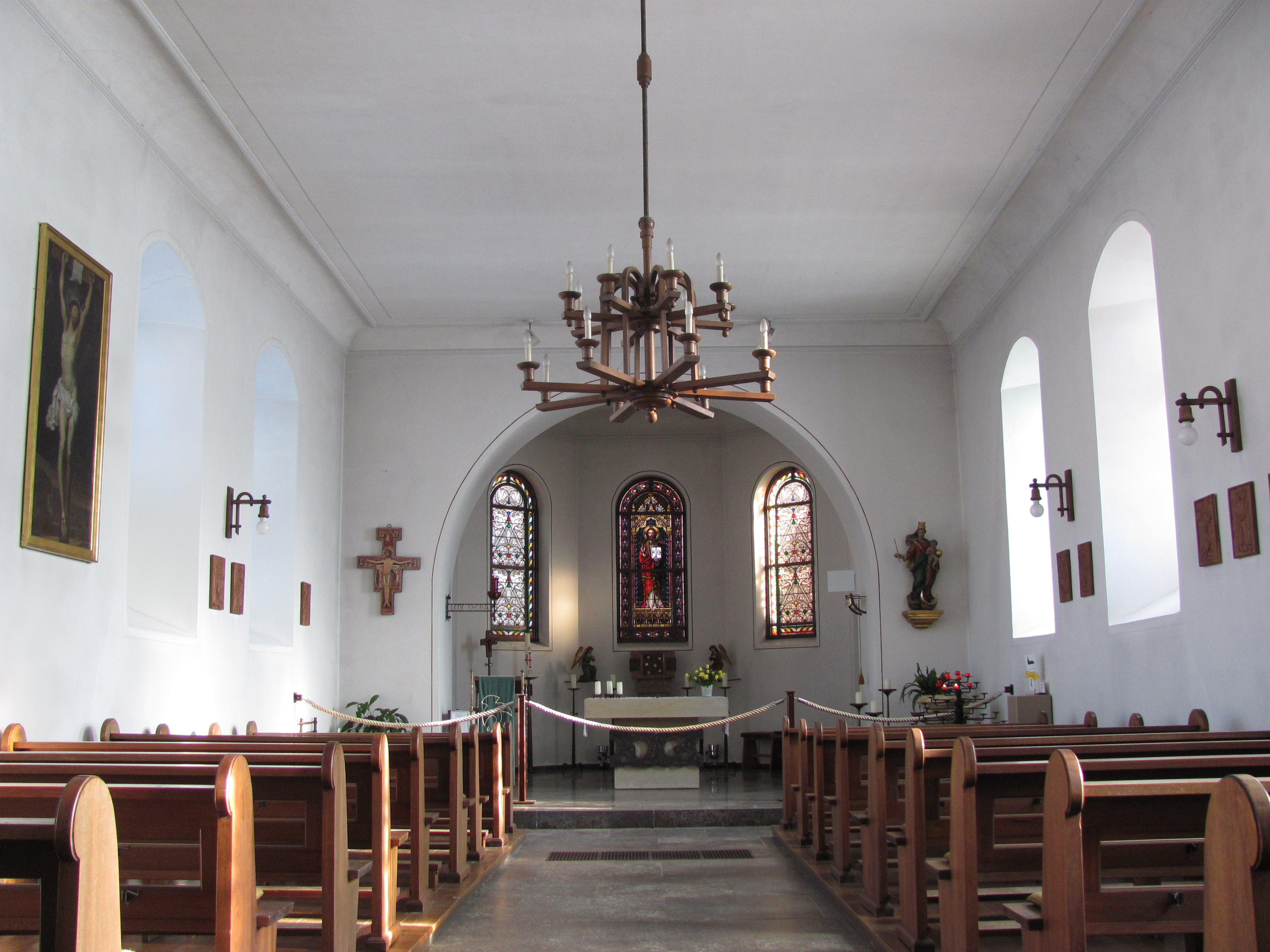 Catholic Church, Holle-Grasdorf, near Hildesheim, Lower Saxony, Germany.